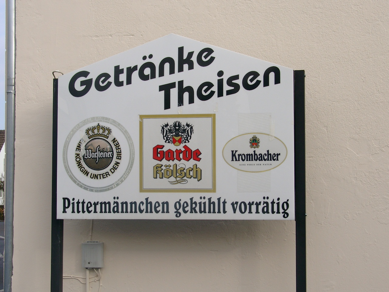 Advert of a retailer of beverages in Bonn in Germany — Cooled Pittermännchen beer barrels available